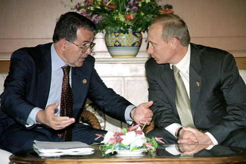 OKINAWA, JAPAN. President Putin with Romano Prodi, European Commission President.